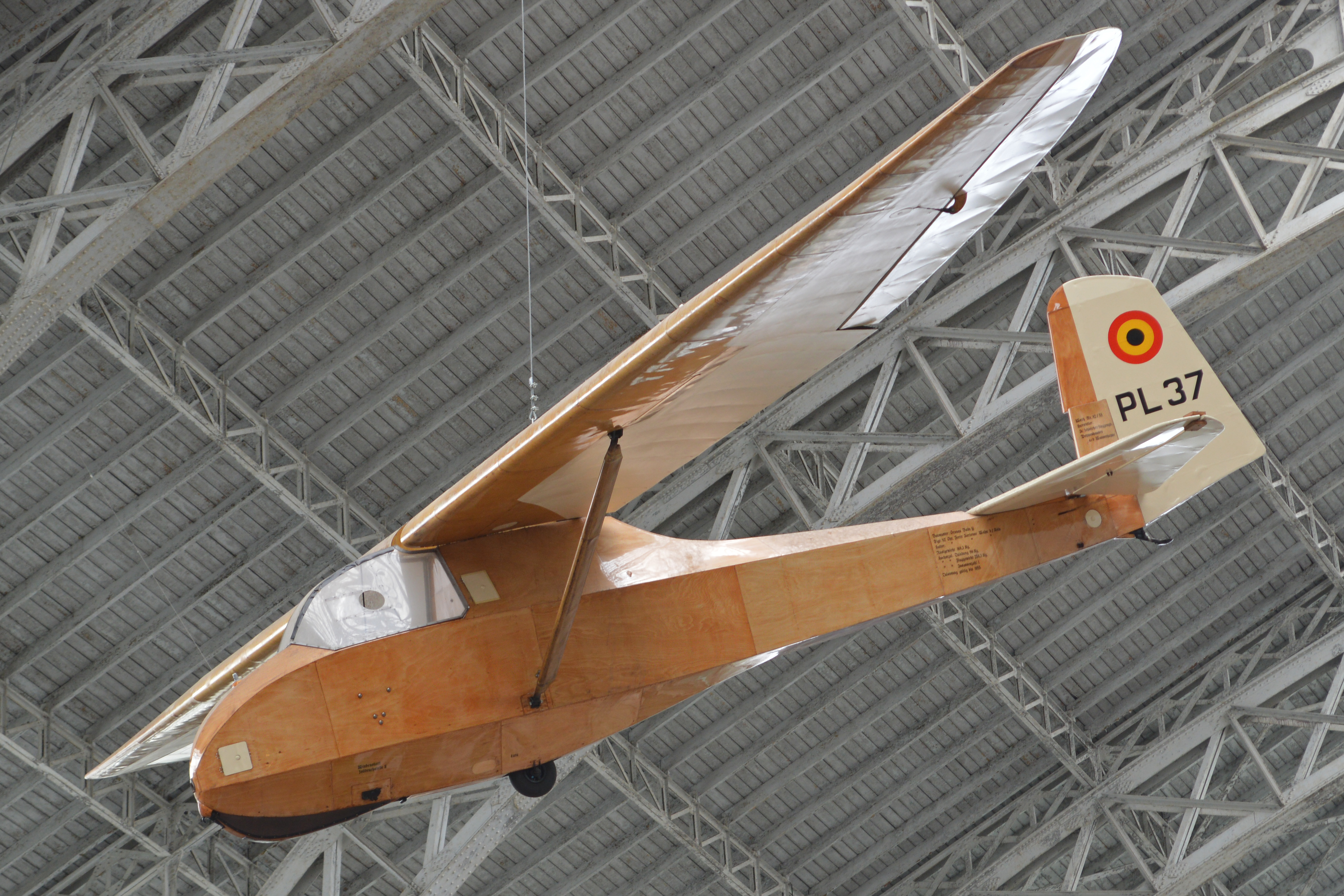 c/n 82/55 Belgian Air Force serial ‘PL37’. In service from March 1955 to roughly 1974. On display at the Musee Royal de l'Armee et d'Histoire Militaire (usually known as the Brussels Air Museum), Brussels, Belgium. 26th June 2016